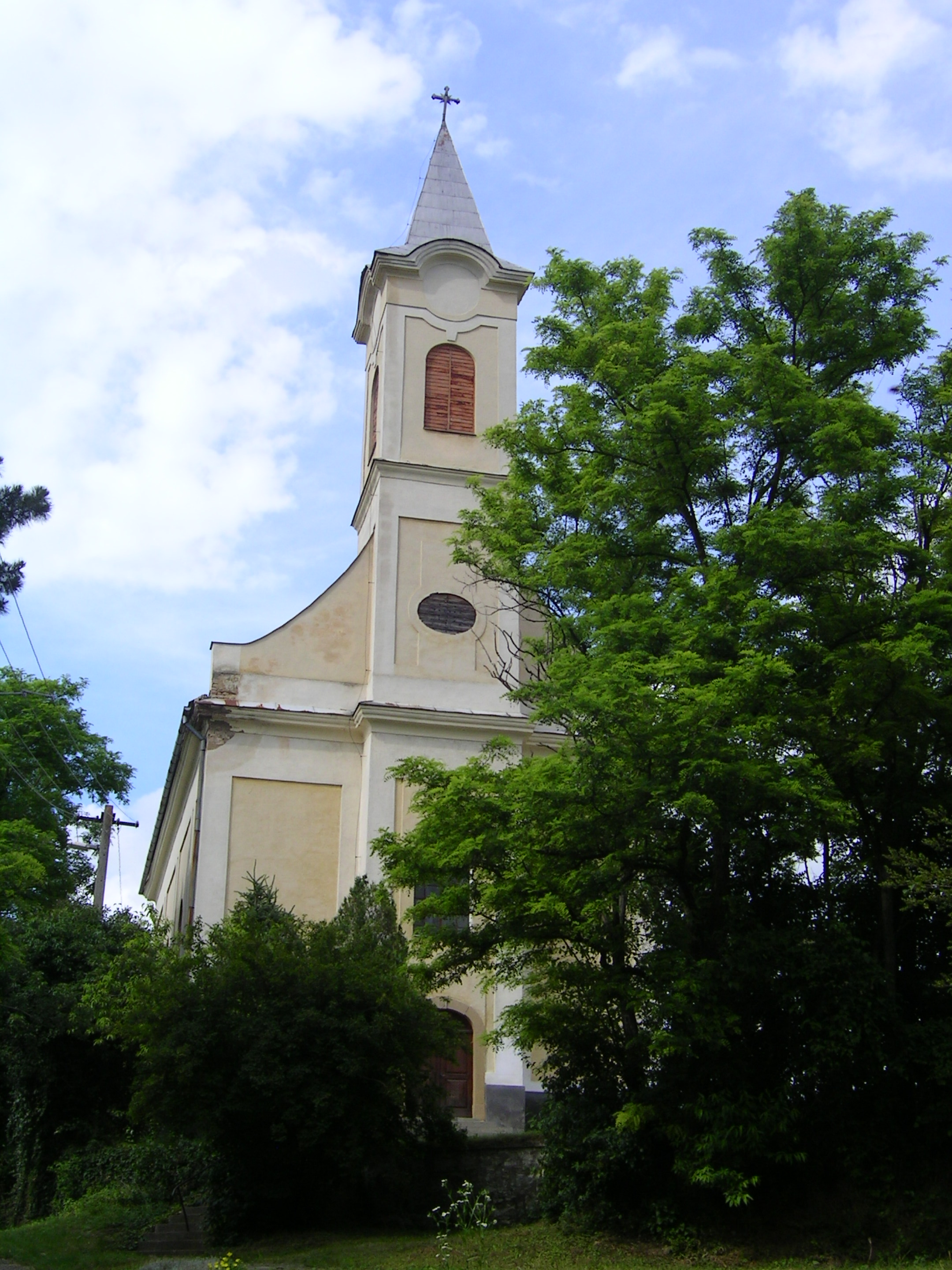 Roman Catholic church in Maráza, Hungary.